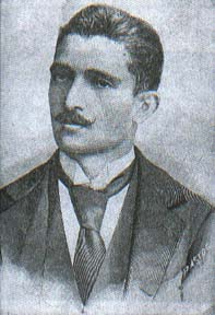 Depicted person: Adolfo Caminha